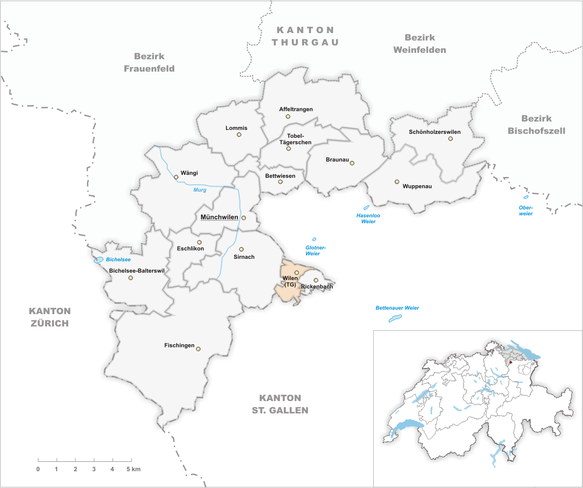 Municipality Wilen (TG)